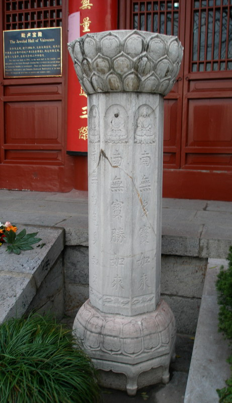 Jiming Temple's Jiming Temple's Pillar Column.Nanjing